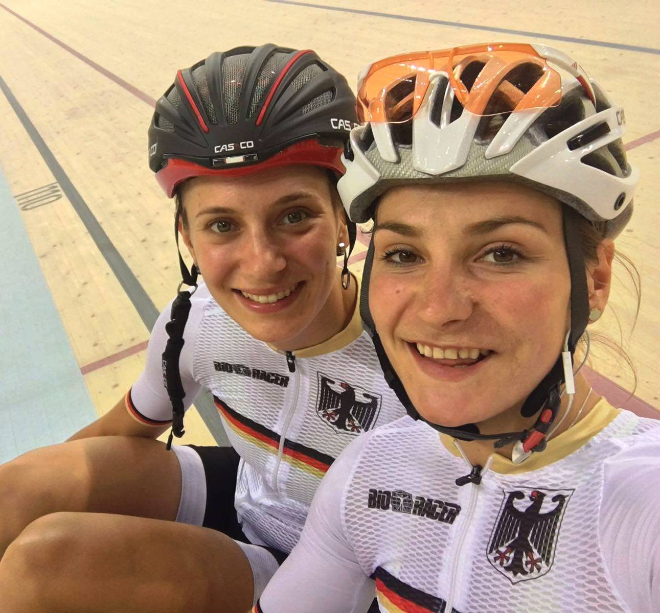 Miram Welte (l.) and Kristina Vogel, at the Velódromo Municipal do Rio, training before the Olympics